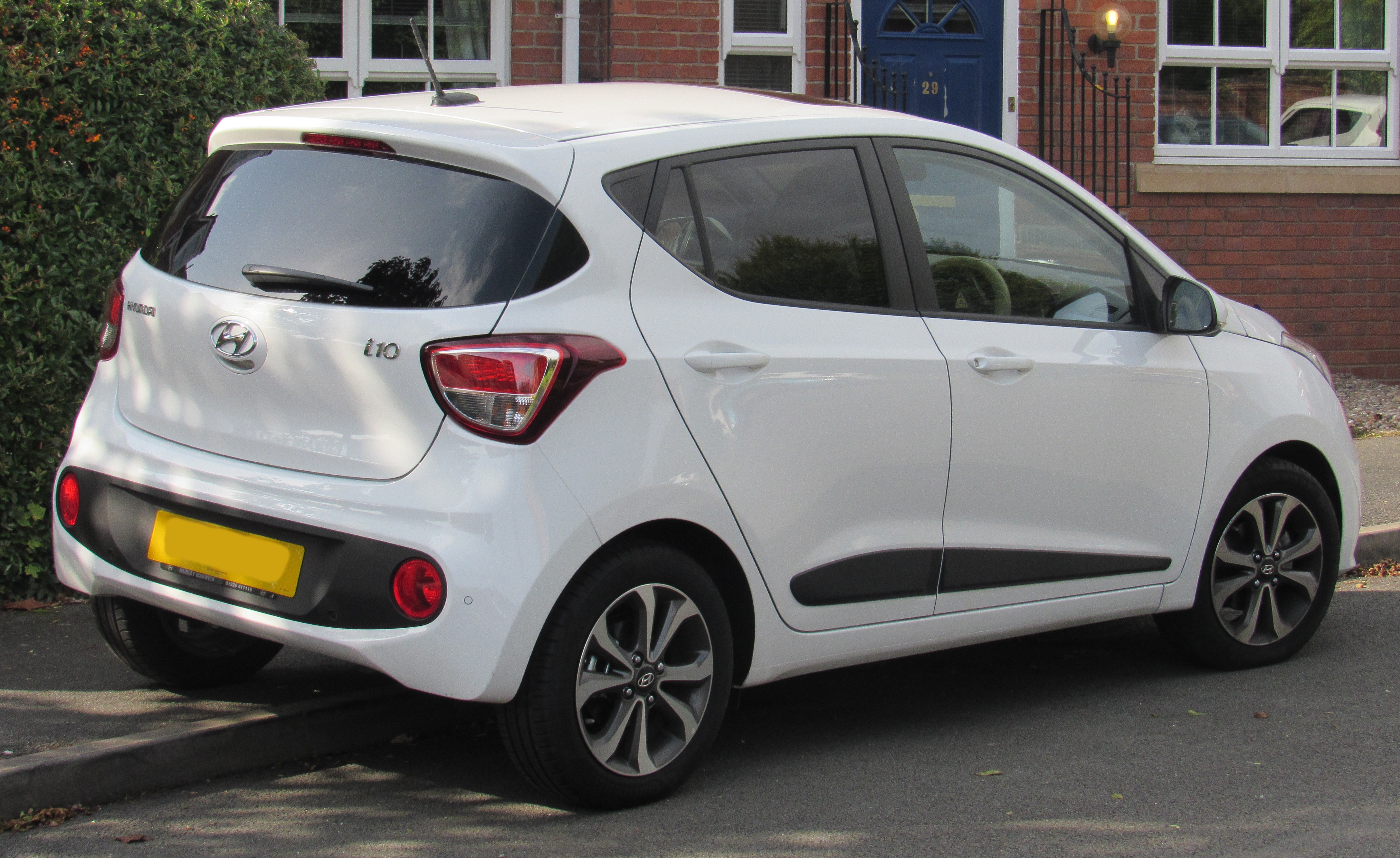 2017 Hyundai i10 Premium SE Automatic 1.2 Rear Taken in Warwick.jpg